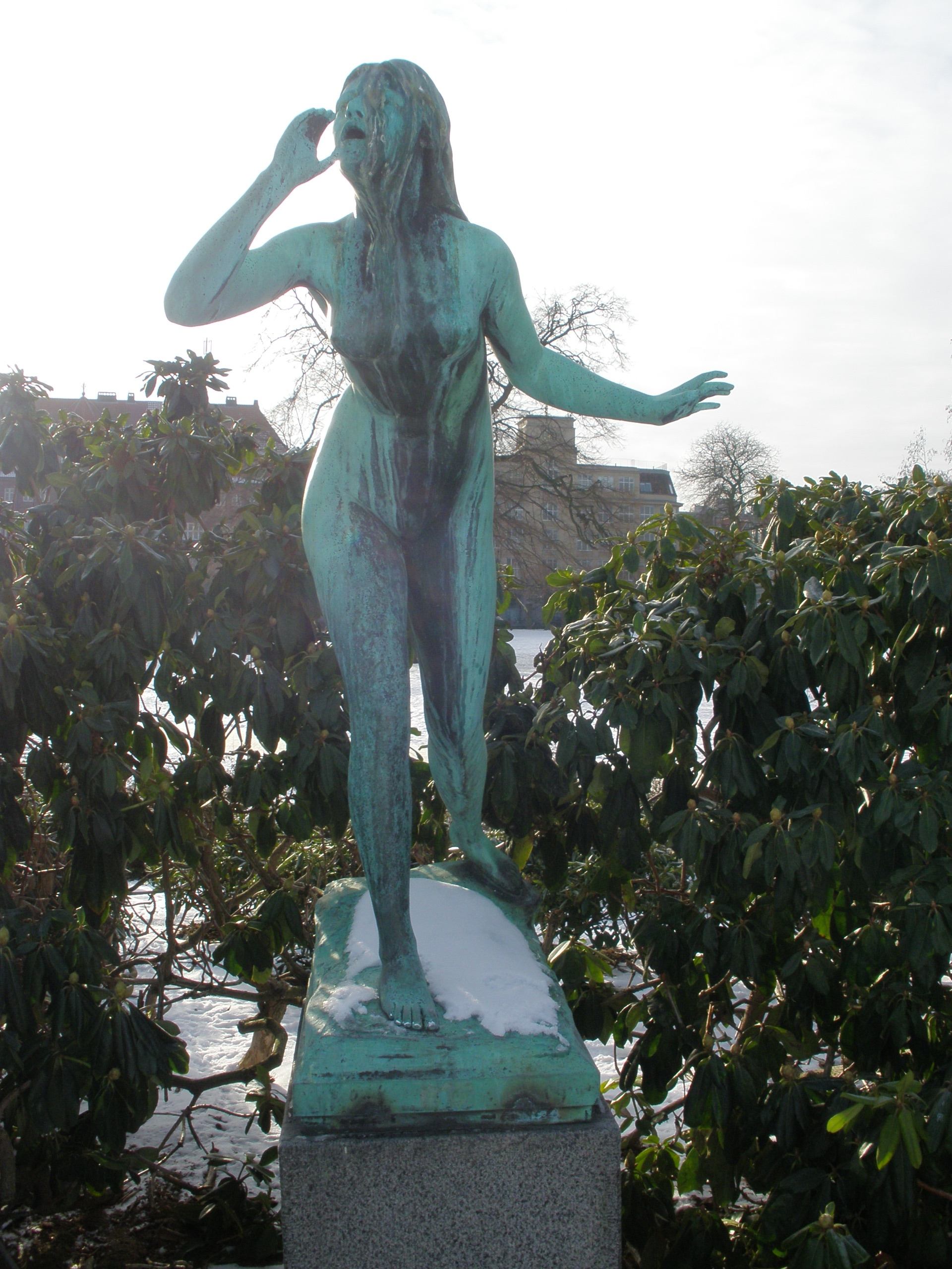 The sculpture Echo erected in Rosenborg Castle Gardens 1888 is the primary work of Aksel Hansen.